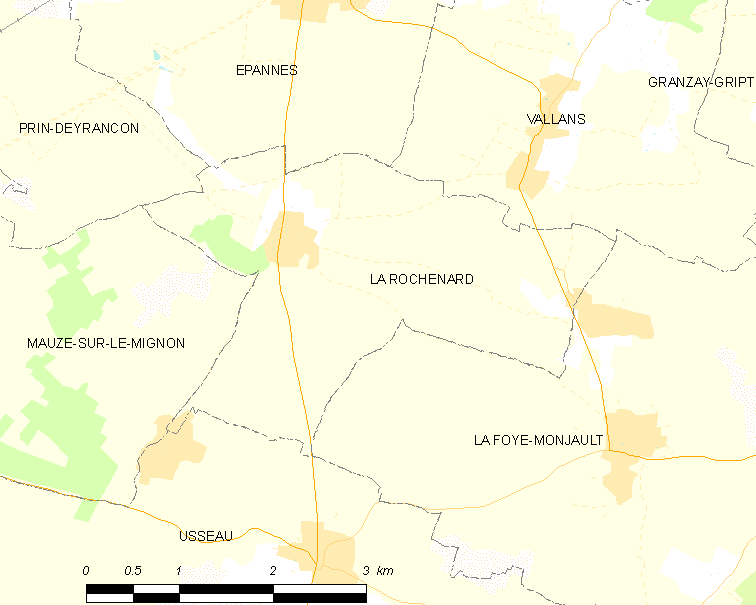 Map of French municipality La Rochénard